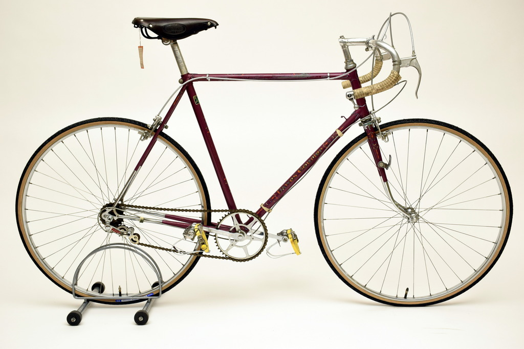 Studio photo of the Dawes Courier